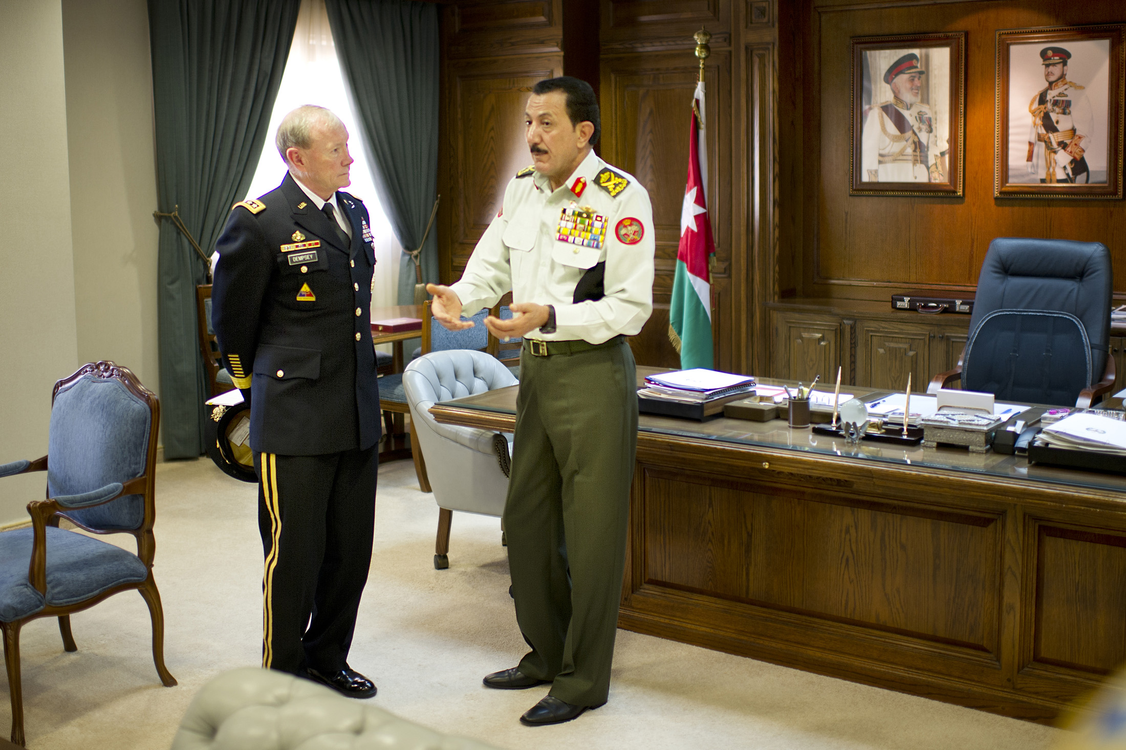 Jordanian Chief of Defense, Lt Gen. Mashal al-Zaben, meets with his U.S. counterpart, Army Gen. Martin E. Dempsey, chairman of the Joint Chiefs of Staff, at a military post near Amman, Jordan, April 22, 2012. DOD photo by D. Myles Cullen